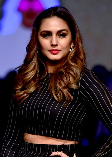 Huma Qureshi walks the ramp at the Lakme Fashion Week 2018.